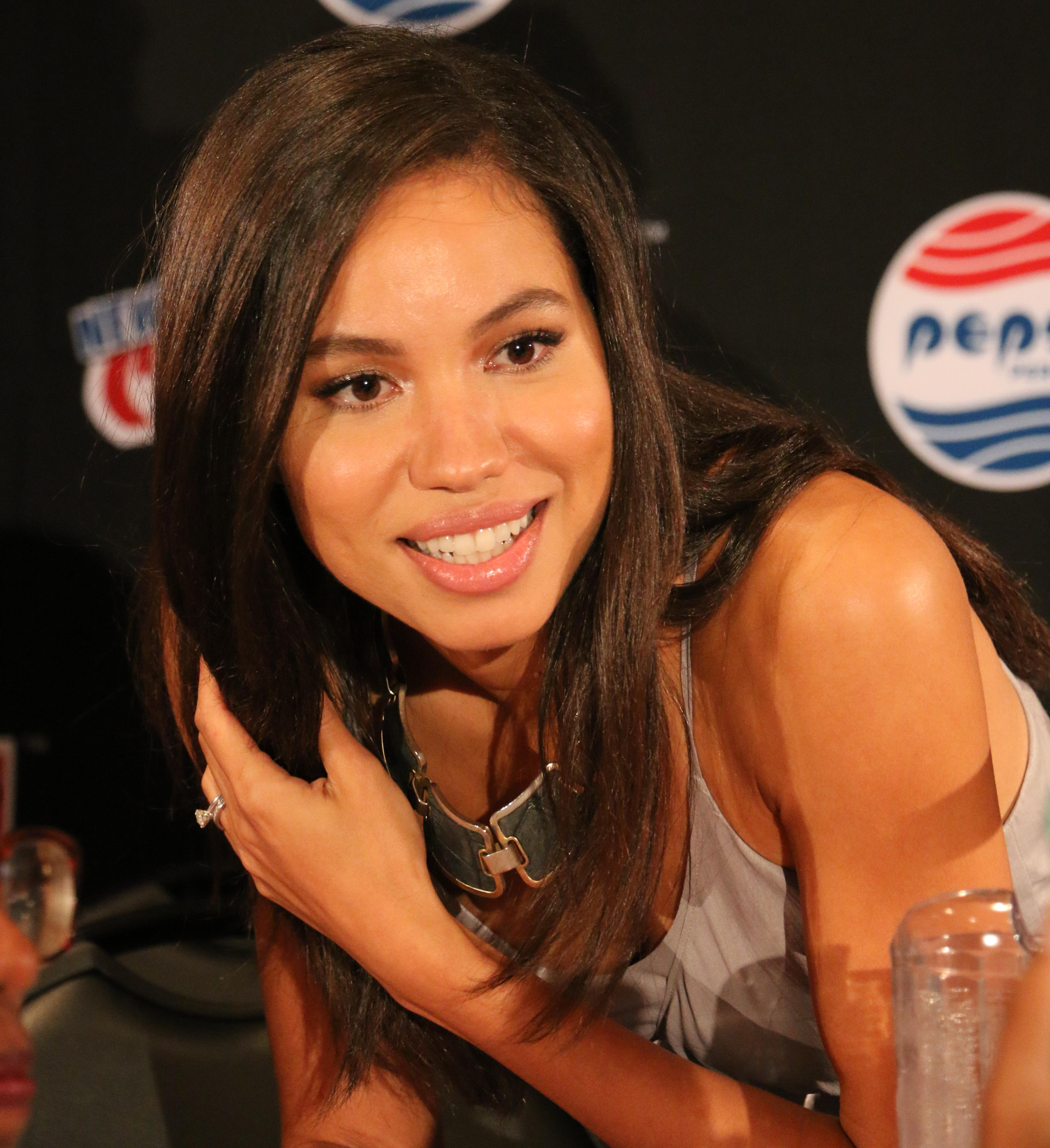 Jurnee Smollett-Bell at the "Underground" panel during the 2015 New York ComicCon, October 11, 2015